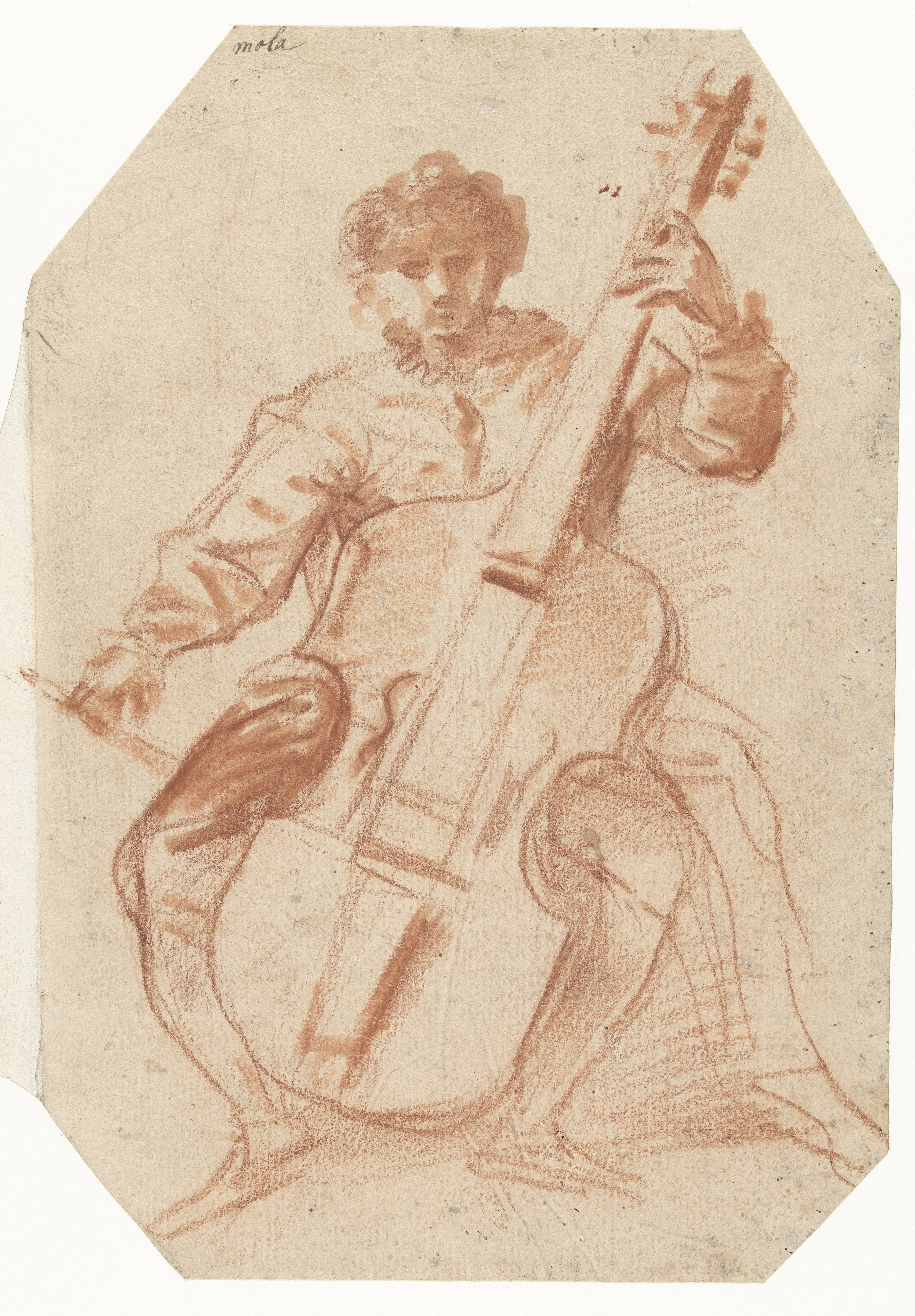 Viol player, frontal, Pier Francesco Mola, 1645 to 1650, red chalk and brush on paper, 25.1 by 17.2 cm, Rijksmuseum Amsterdam